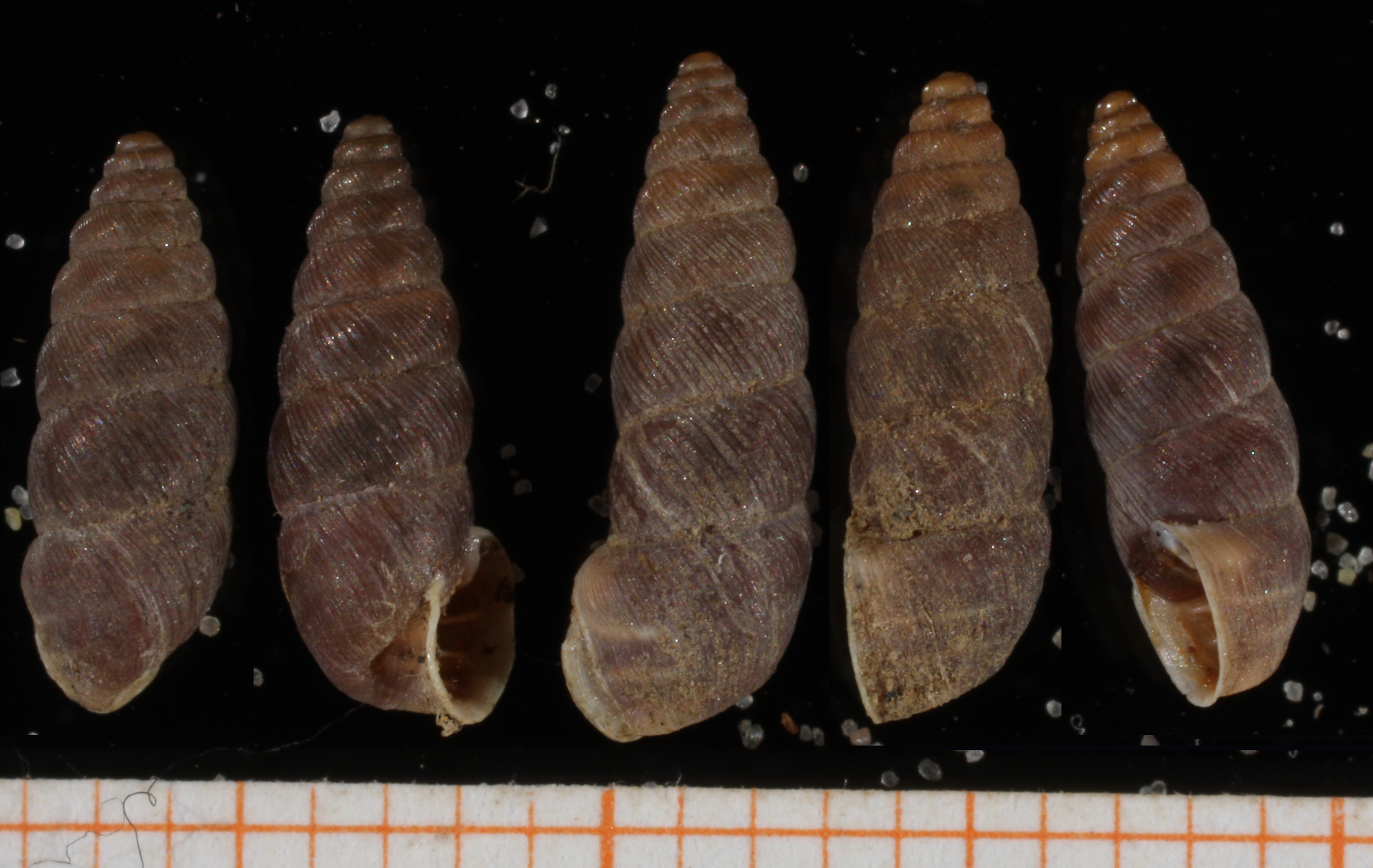 Chondrina bigorriensis (des Moulins, 1835), Chondrinidae, Pulmonata, Gastropoda, near Grezian, Dépt. Hautes-Pyrenées, France